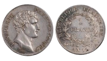 A : Bonaparte Premier Consul - R : République française 1 franc An 12 : silver coin of 5 g minted in Paris (A) by the French Republic Government.